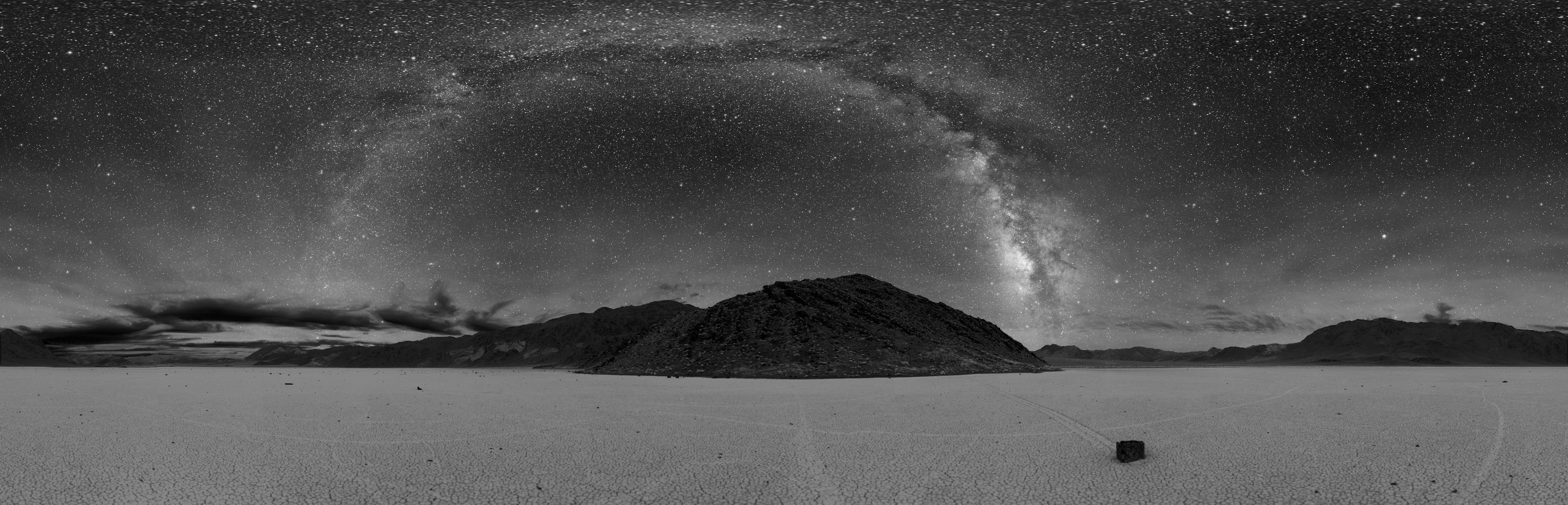 360° panorama of Racetrack Playa in Death Valley at night. The Milky Way is visible as the arc in the center. A sailing stone is also seen below along with the tracks of other stones.